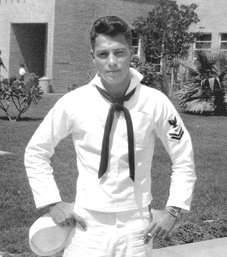 Robert Scott Kellner in 1960, when he located his grandparents and discovered the diary. Author Robert Scott Kellner. Source scanned from family album.